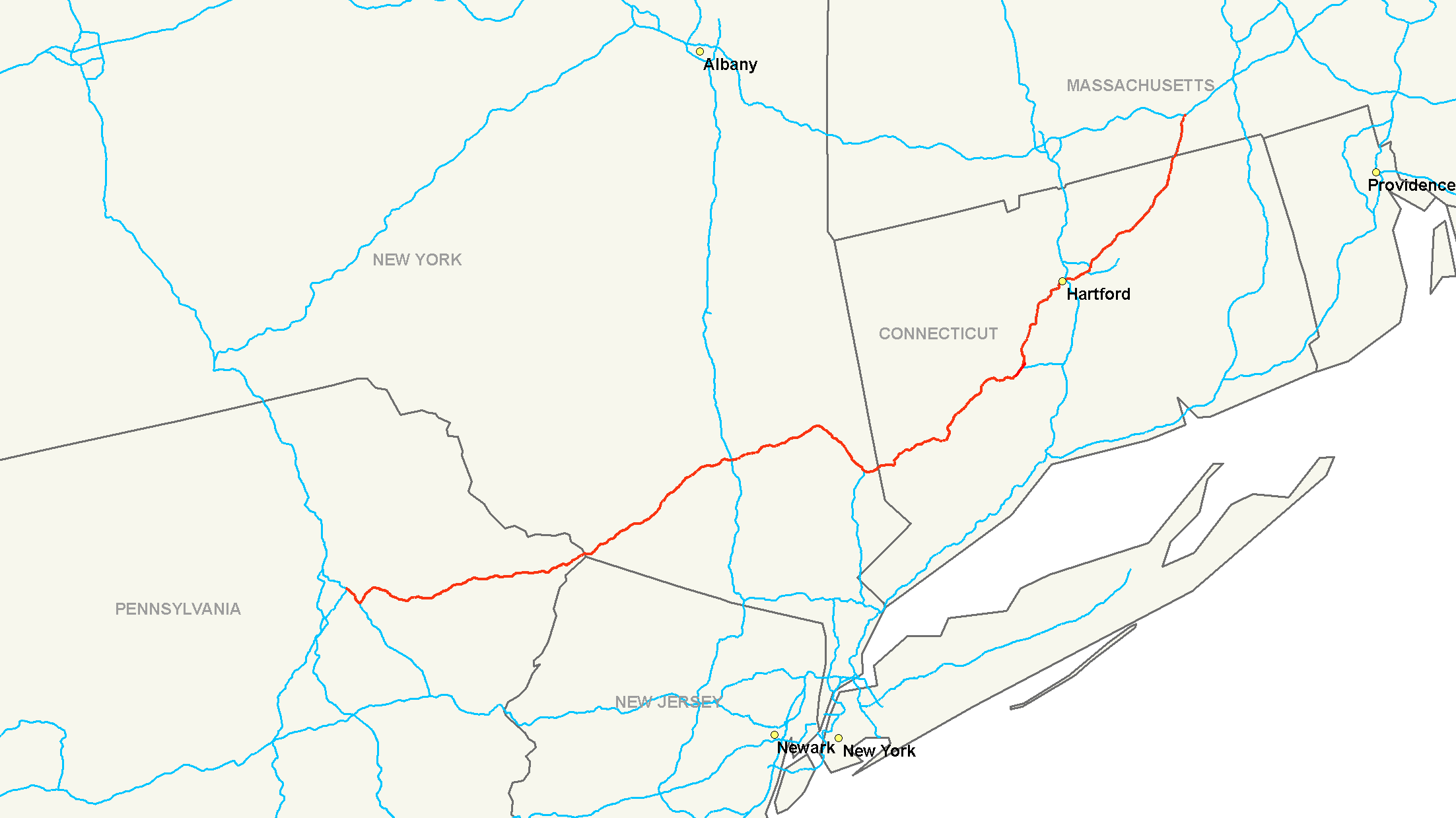 Map of Interstate 84 (East)